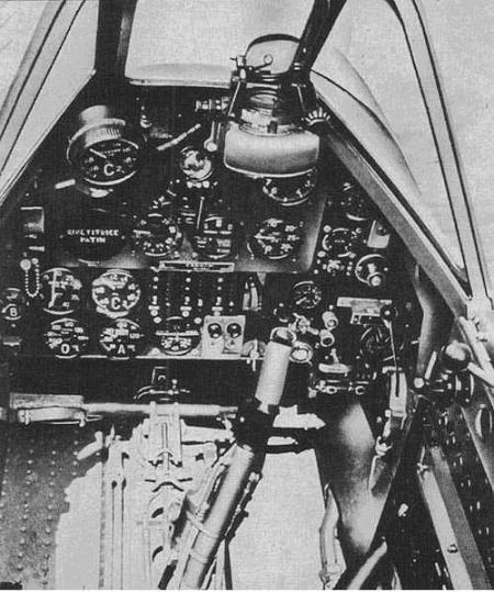 cockpit of the Macchi M.C. 205V